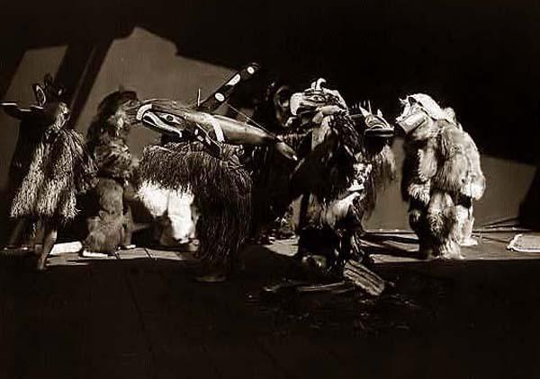 Dancers during the tsetseka winter season